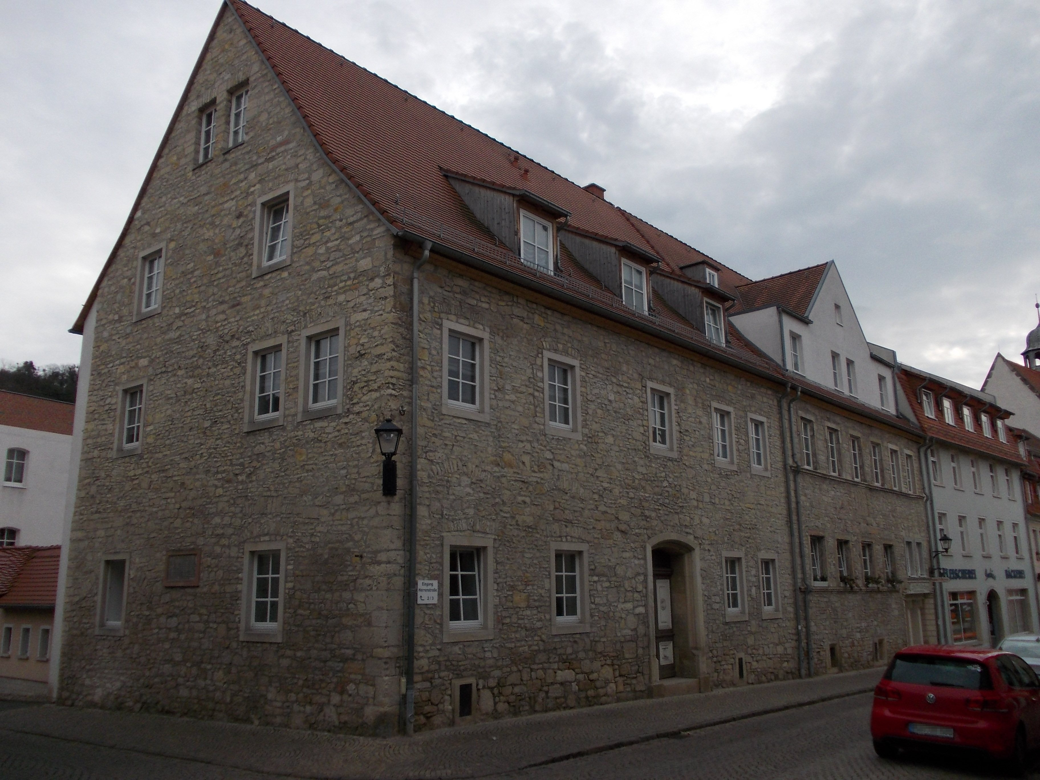 No. 2/3 of Herrenstrasse in Freyburg/Unstrut (district of Burgenlandkreis, Saxony-Anhalt)